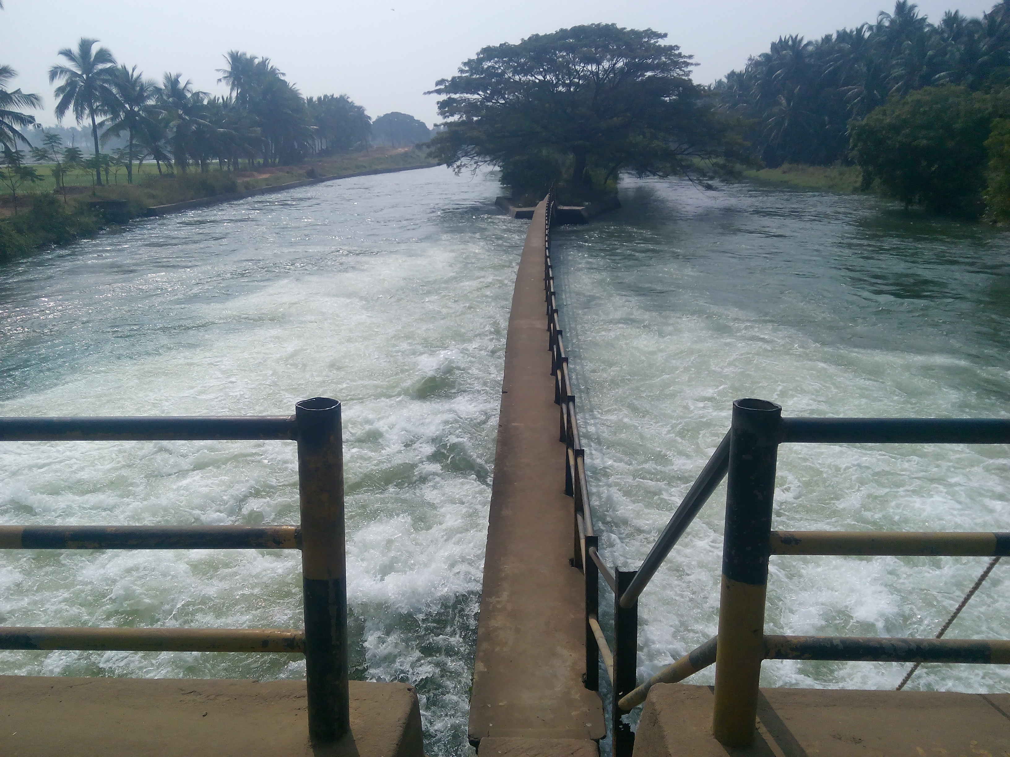 Locks of Lolla Village at Atreyapuram